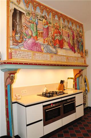 Tegeltableau, Huis 't Schaep, Bruges